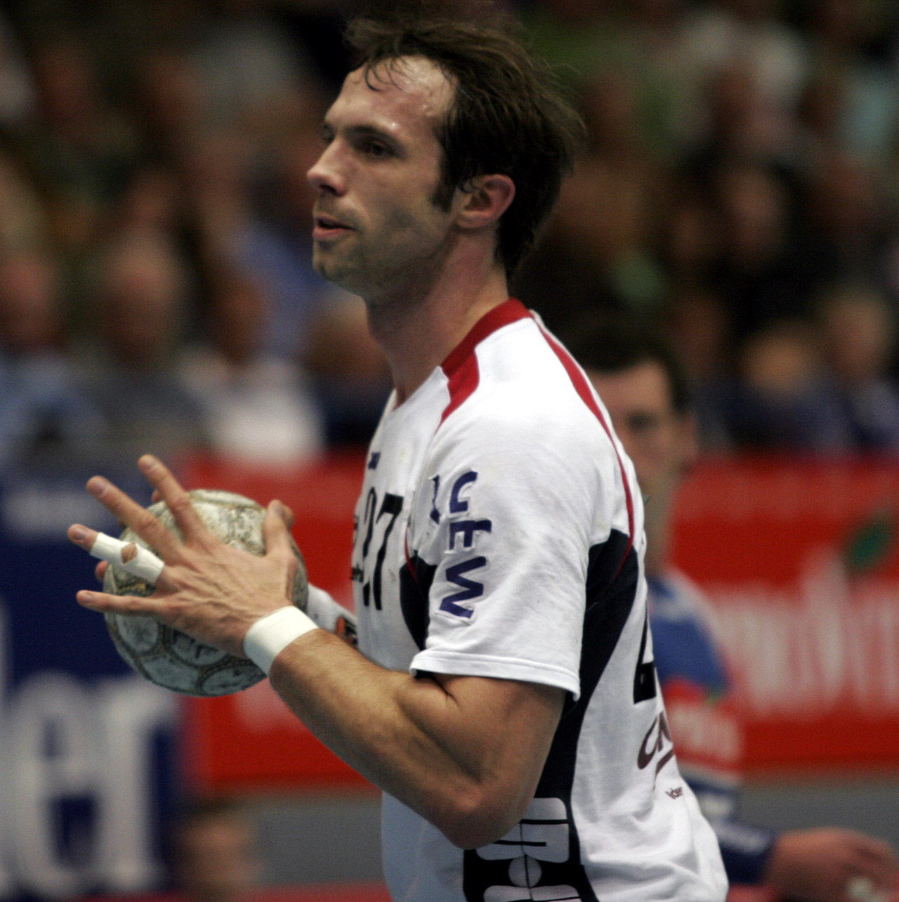 Oliver Köhrmann, handball player of Wilhelmshavener HV (Germany), in the Lipperlandhalle during the match TBV Lemgo vers. Wilhelmshavener HV on October 13th, 2007